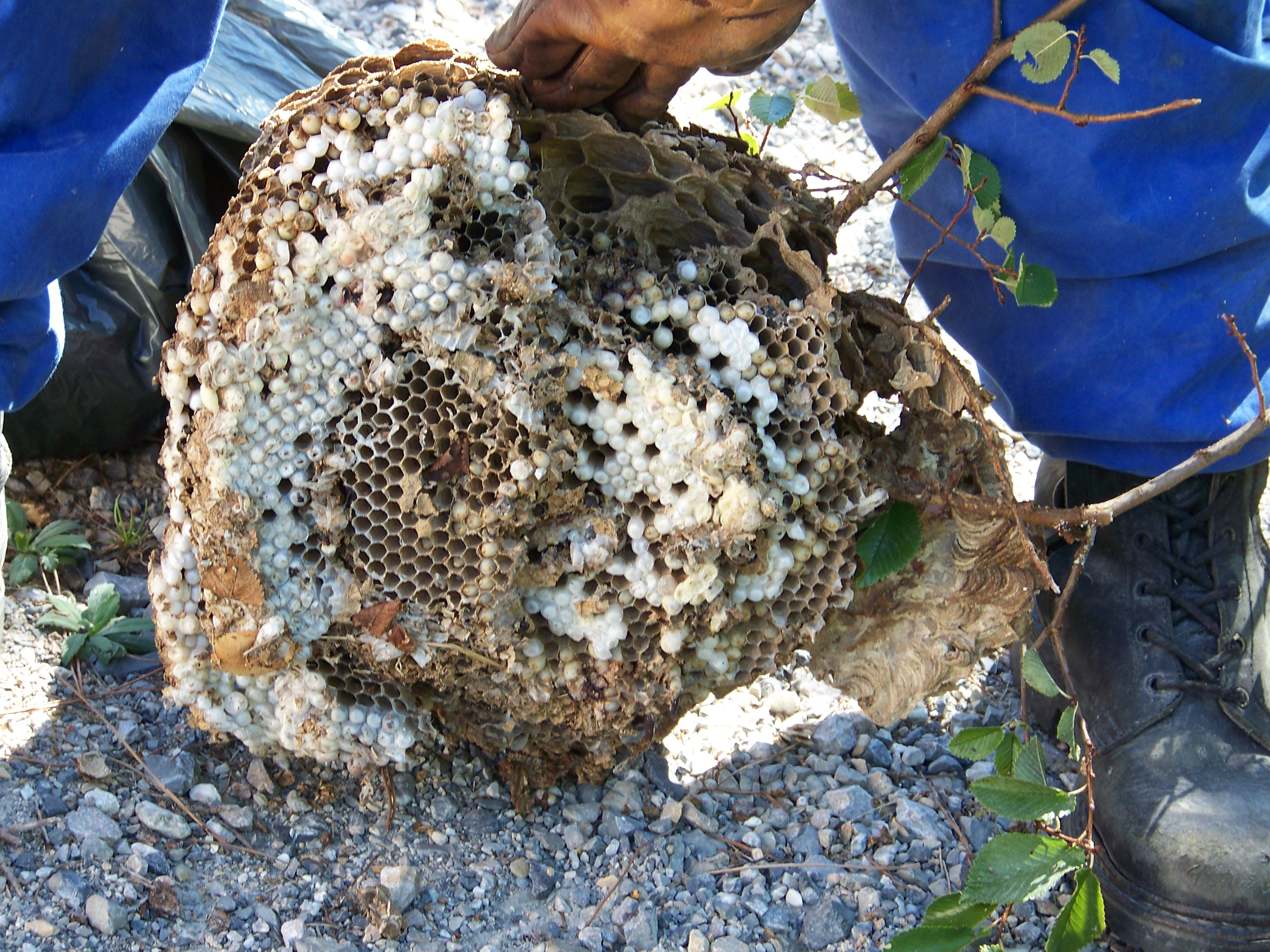 Asian predatory wasp larvae (Vespa velutina) in a nest that has been destroyed.